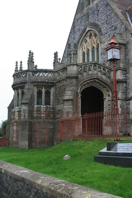 Churchill Methodist church building